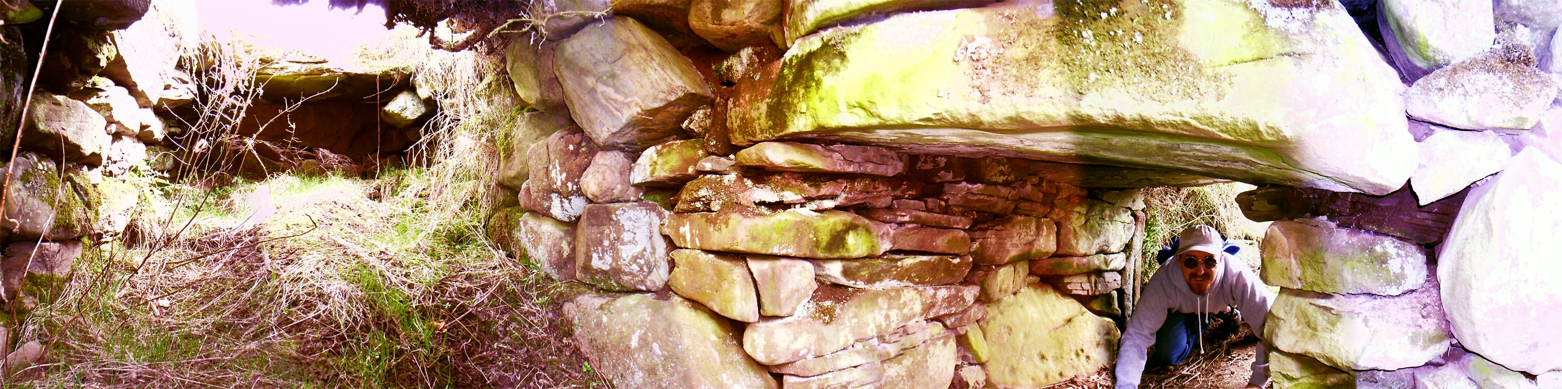 This photograph taken by Joe Dorward on 29MAR03 is a short panorama showing the Pitcur Souterrain